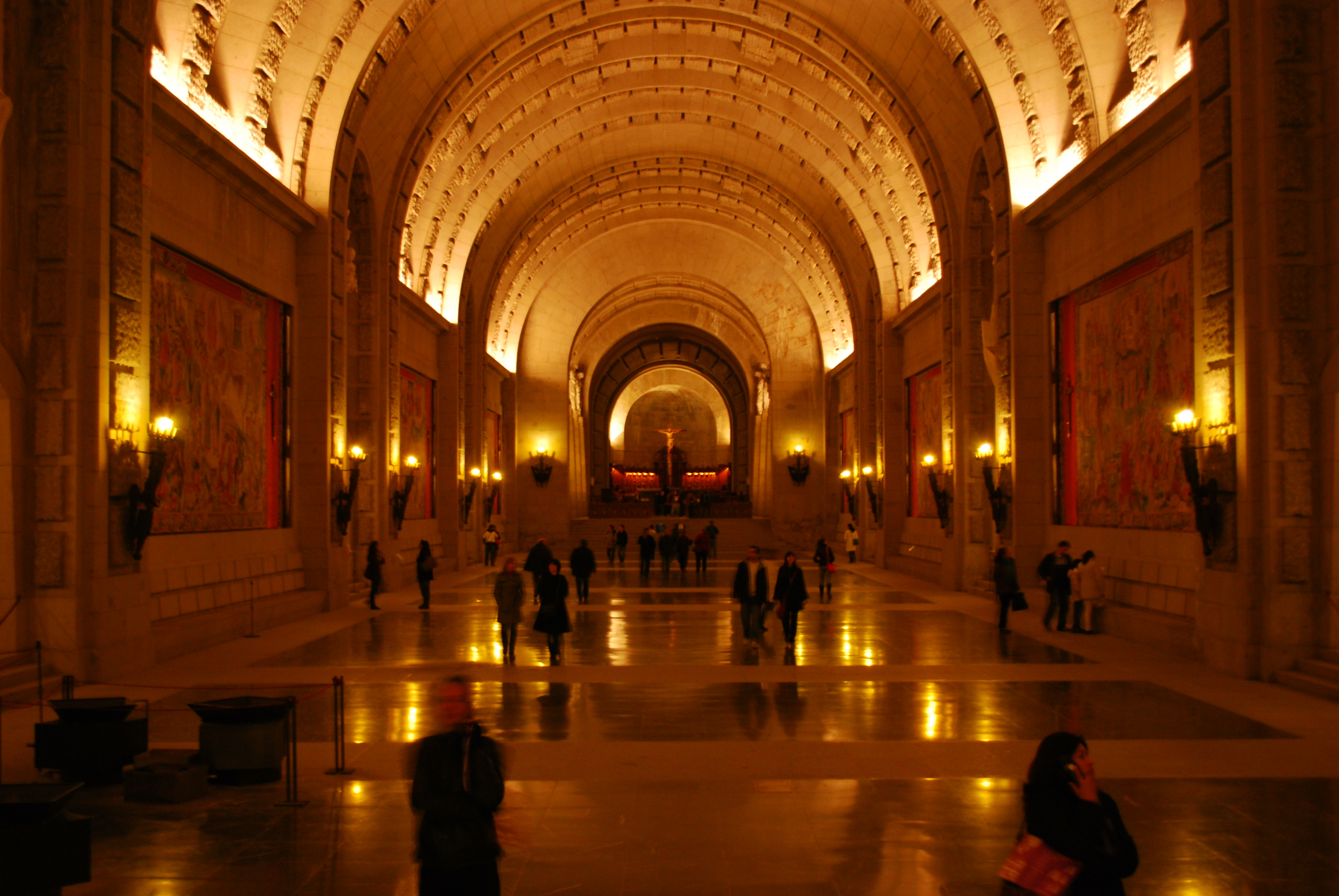 Interior of Valle de los Caídos (San Lorenzo de El Escorial, Community of Madrid, Spain).